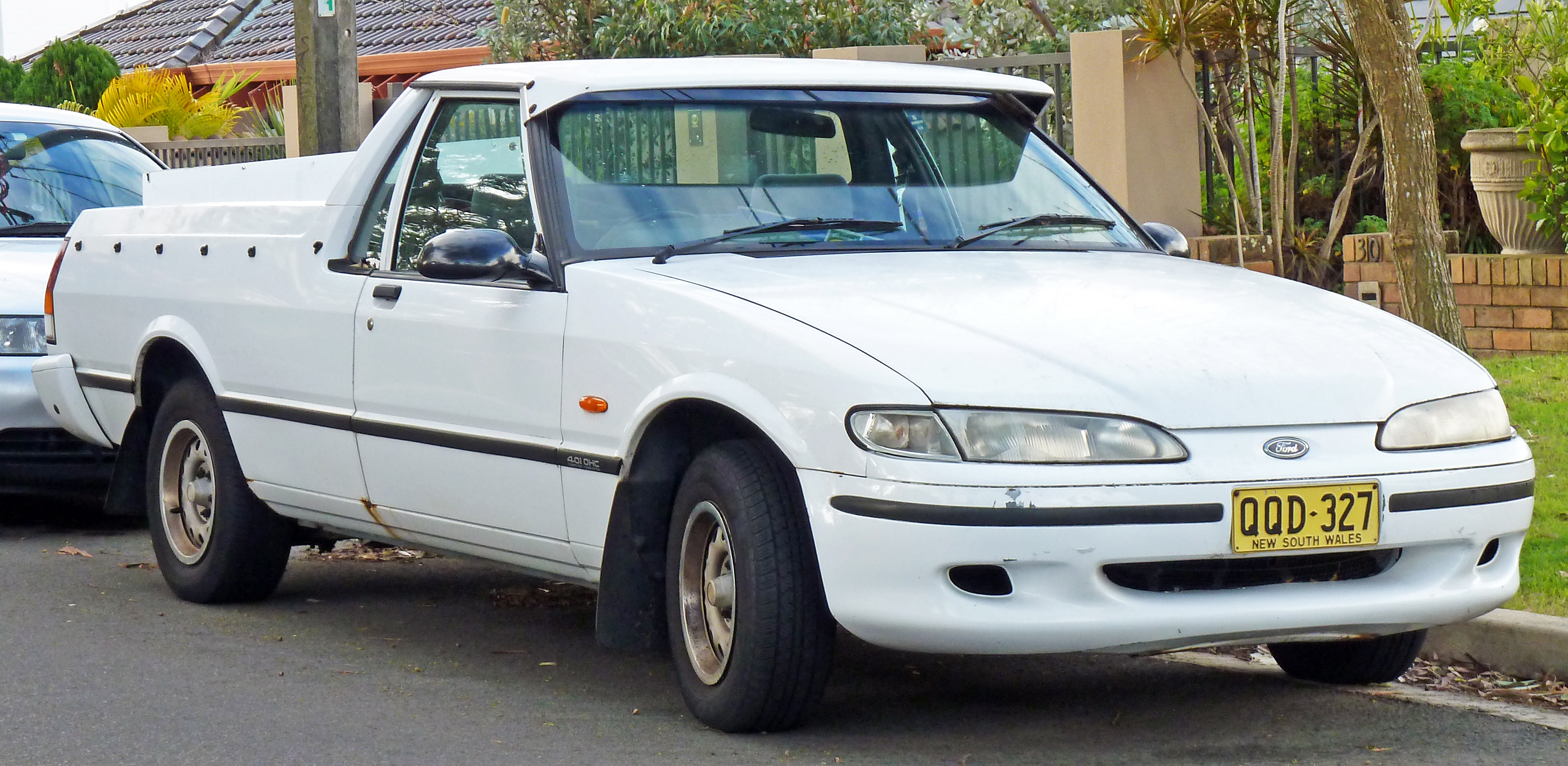 1996 Ford Falcon (XH) Longreach GLi utility. Photographed in Kangaroo Point, New South Wales, Australia.